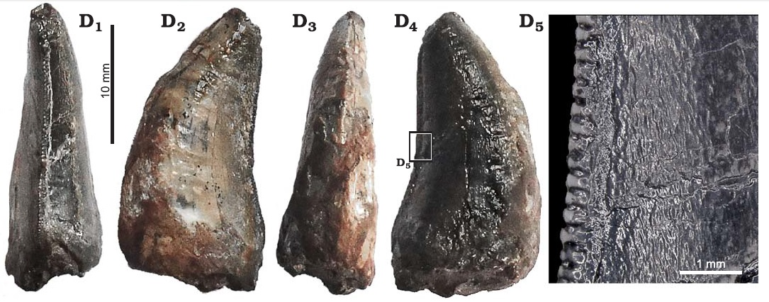 Spinosaurid tooth MUPE HB-87 in distal (D1), lingual (D2), mesial (D3), and labial (D4 + D5) views. Middle-Jurassic of the Tiourarén Formation, Irhazer Group, Niger. After Serrano-Martinez et al., 2015.